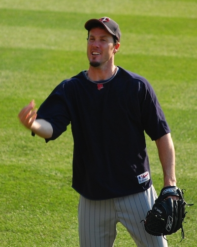 Twins closer Joe Nathan during warmups